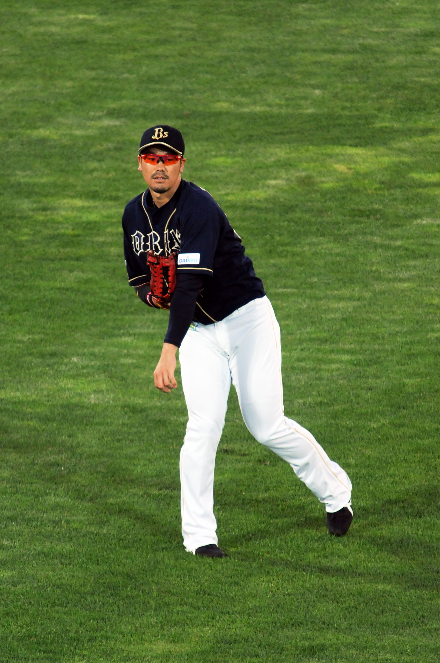 Takahiro Okada, a.k.a. T-Okada, outfielder of the Orix Buffaloes, at Akita Prefectural Baseball Stadium